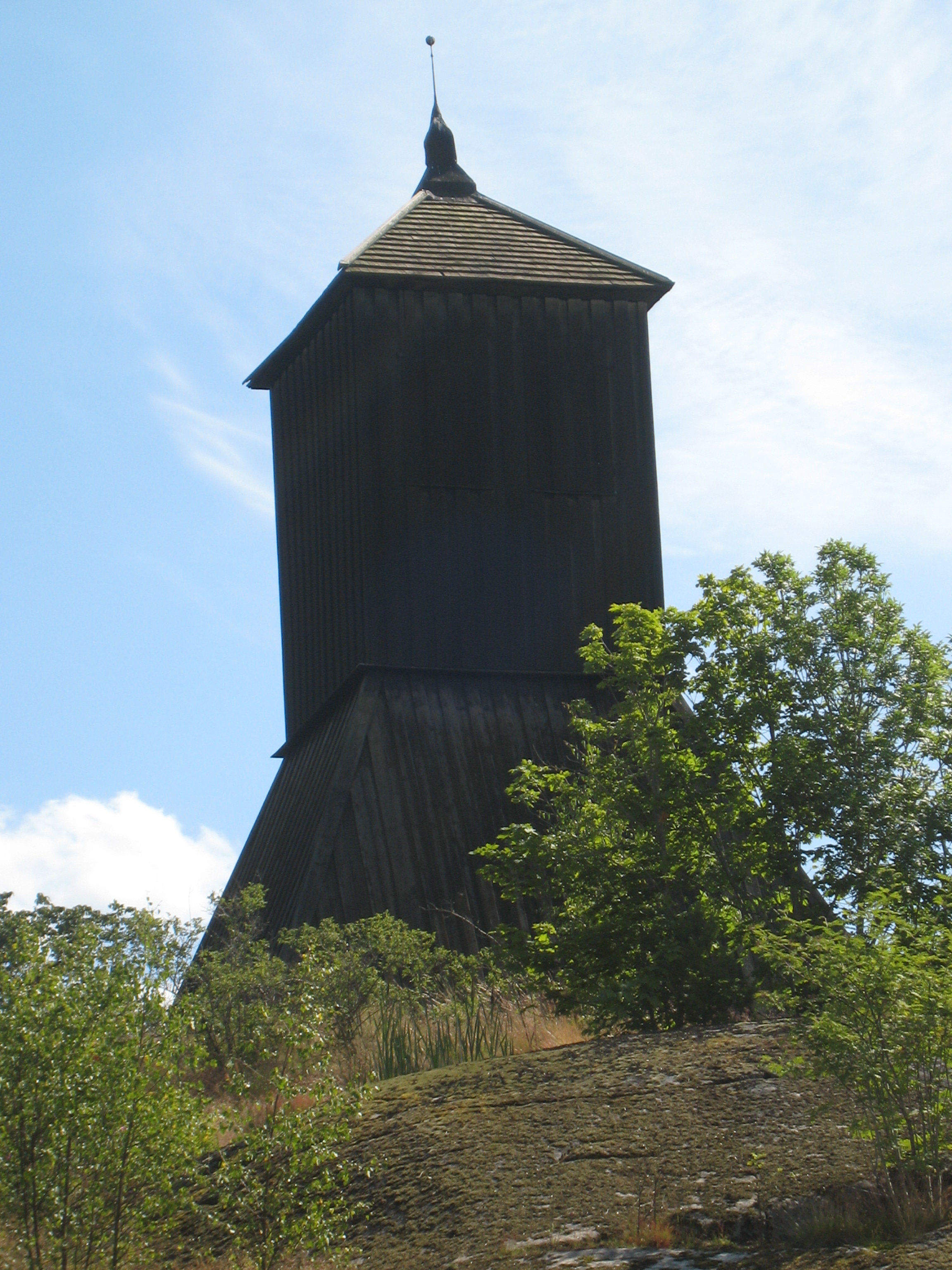 Bell tower (belfry) at Angarn, Sweden